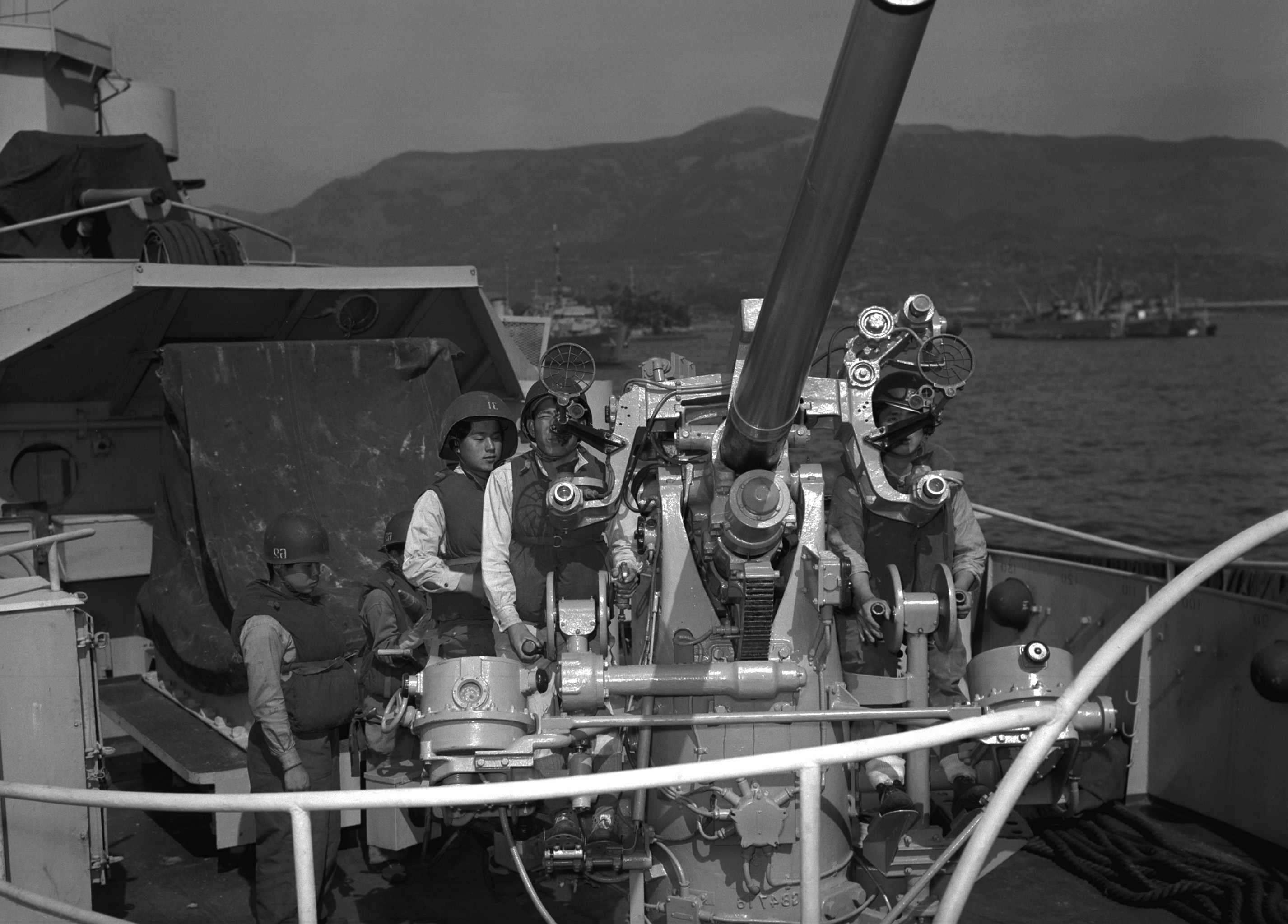 South Korean sailors at their battle stations aboard the Korean frigate Amnokgang (PF 62) on a 3 inch gun, mounted on the forecastle of the ship, off the coast of Korea.